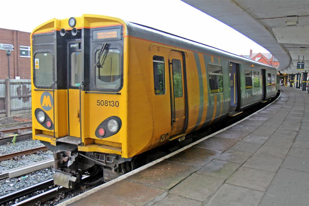 Waiting to depart, New Brighton Railway Station